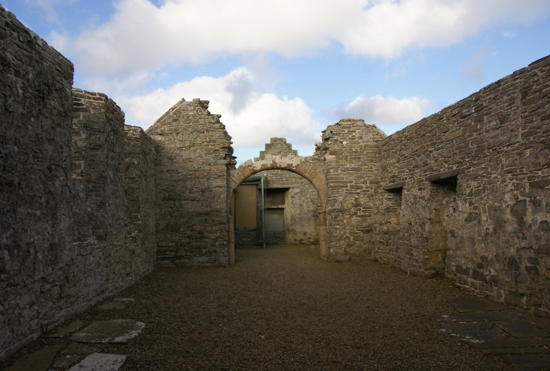 Pierowall Church, Pierowall, Westray, Orkney, Scotland. Interior looking east.